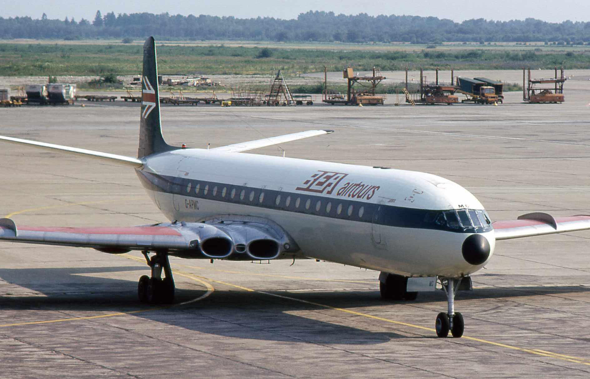 British European Airways Airtour de Havilland Comet 4B G-APMC, c/n 6423 delivered to BEA on November 16, 1959. Sold on March 12, 1970. Here is taken at Pisa Galileo Galilei Airport in 1973.